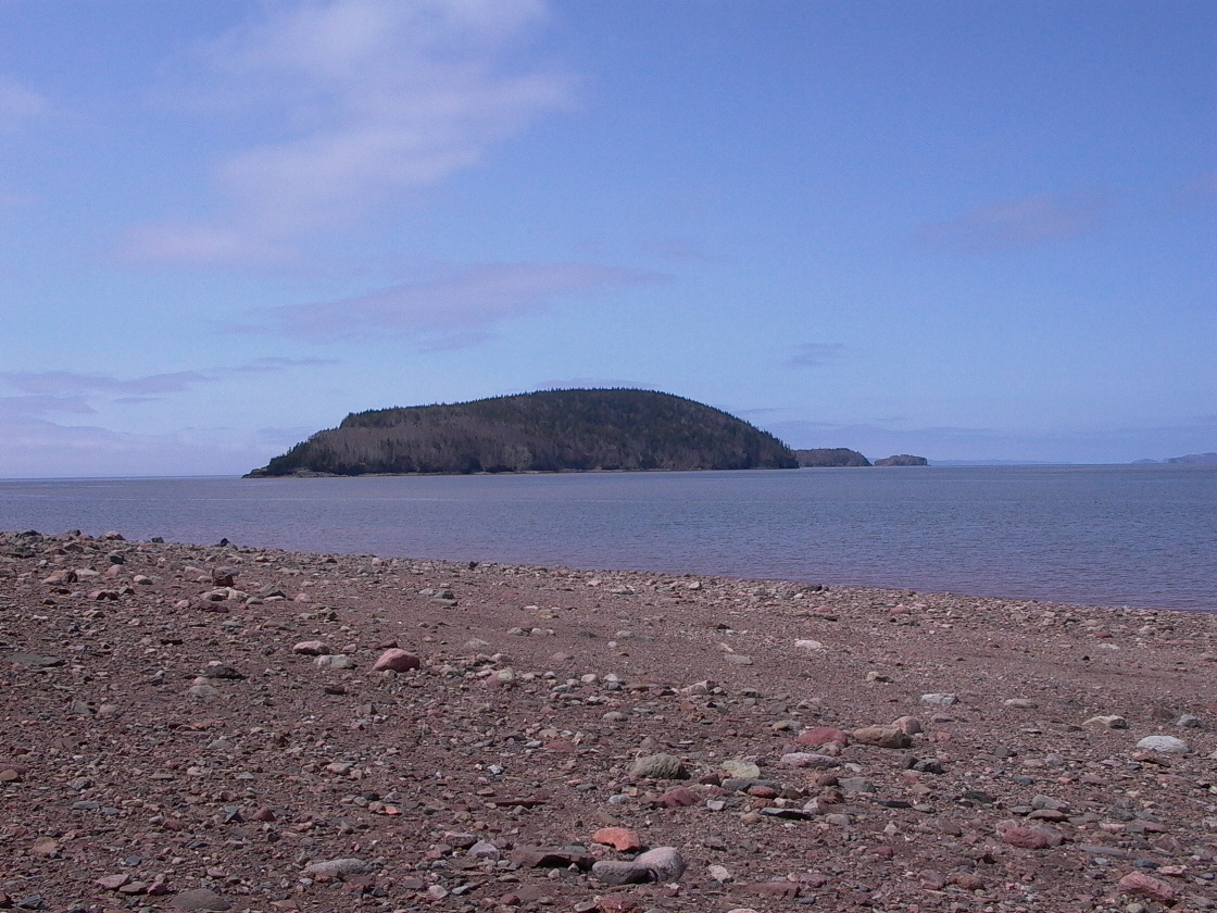 Moose Island, Five Islands Provincial Park, Nova Scotia